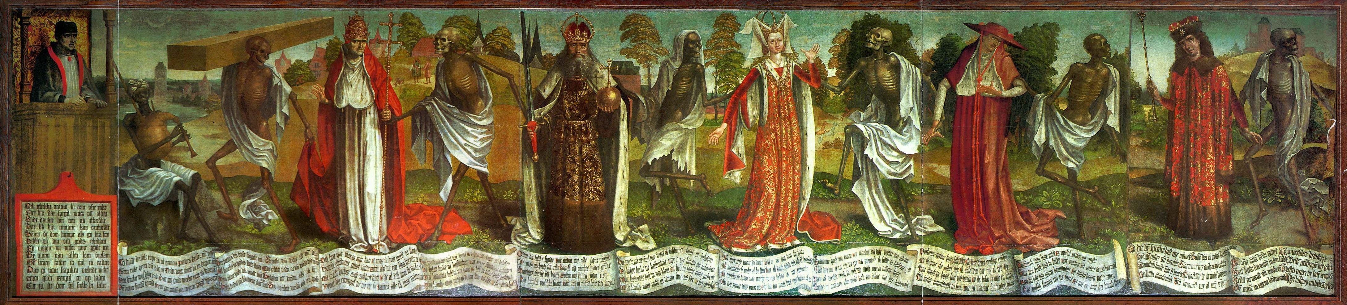 Photographic reproduction of the Danse Macabre painting in Tallinn.